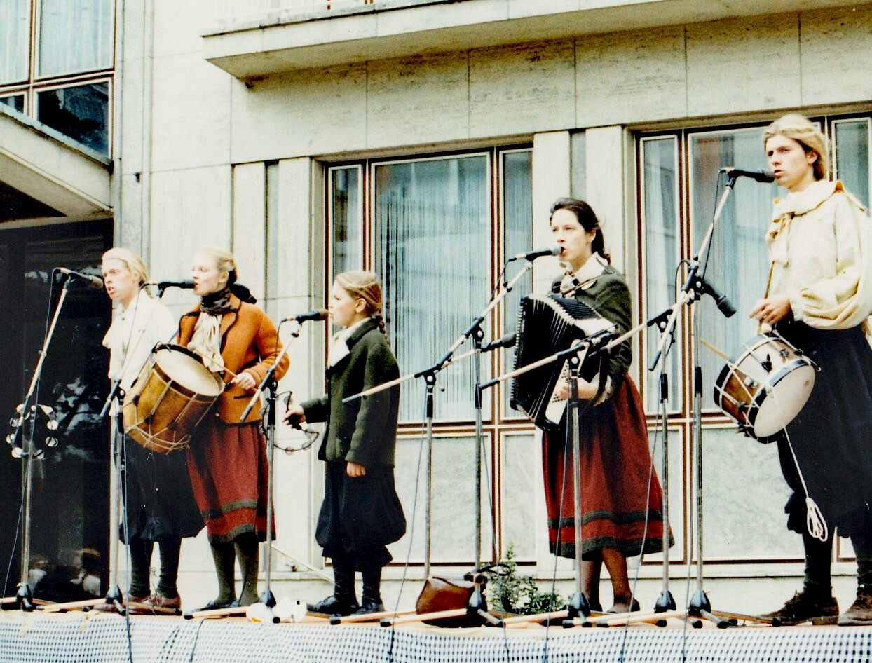 some members of The Kelly Family, ~1989, Wuppertal Germany